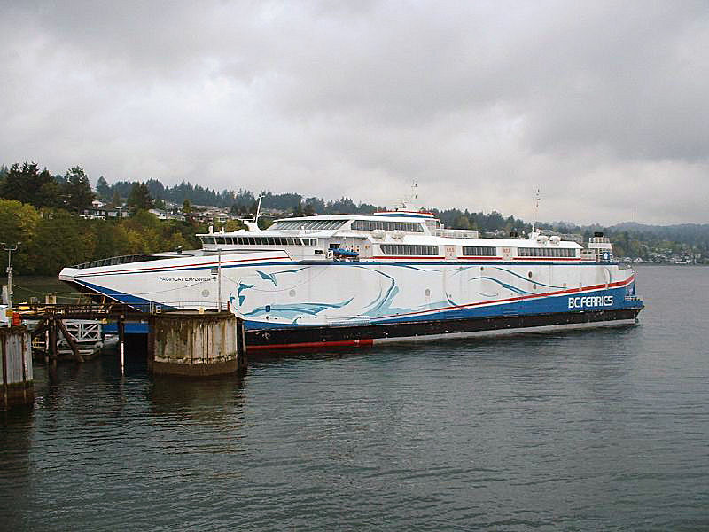 Departure Bay, 2003